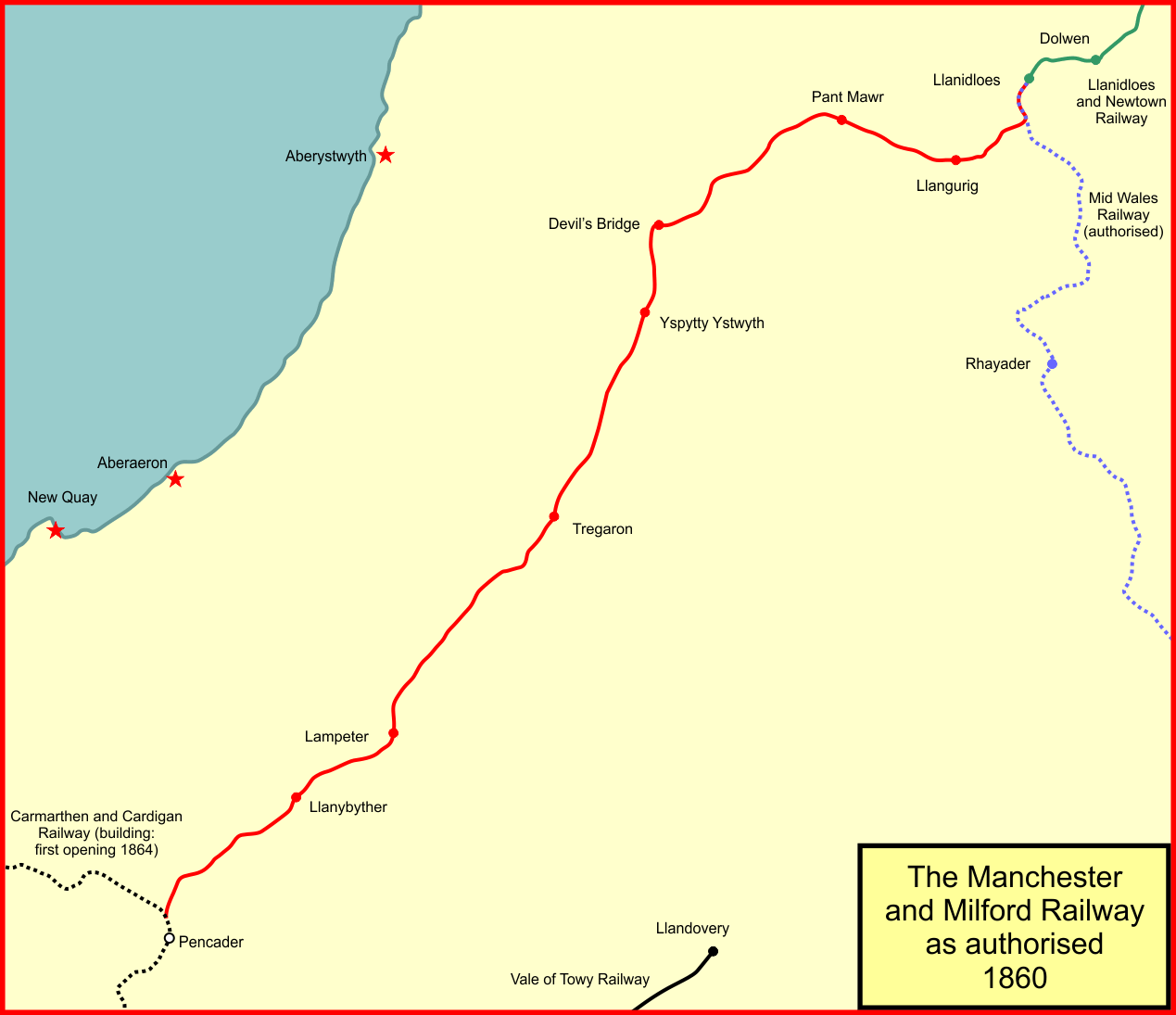 Map of the Manchester and Milford Railway, Wales, as authorised by Parliament (but not built as such)